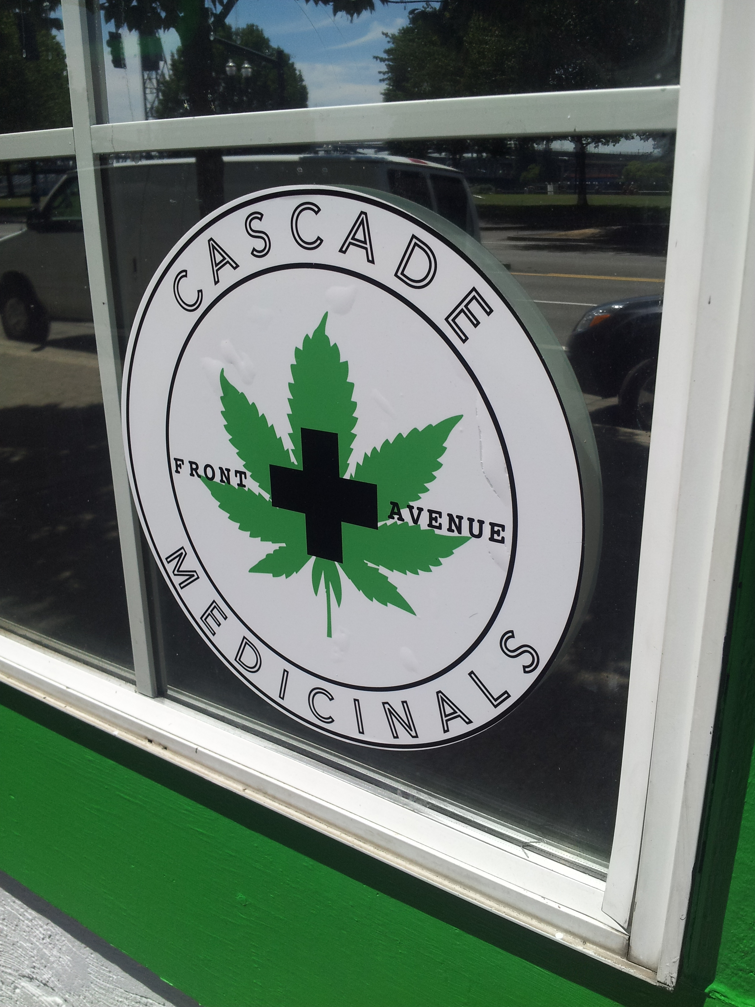 Front Avenue Medicinals, Portland (2014)